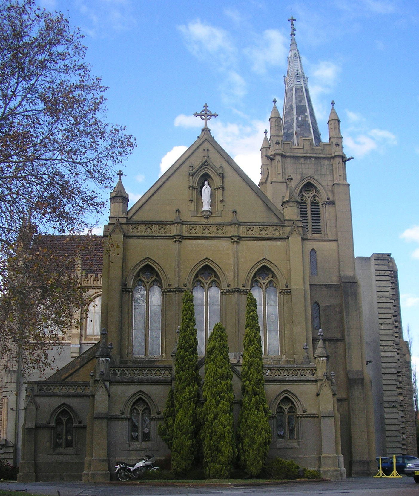 St Mary's Cathedral, Victoria Square, Perth Western Australia. Image taken from the Murray Street side, inside cathedral gates. Taken in July 2006 by Ali K